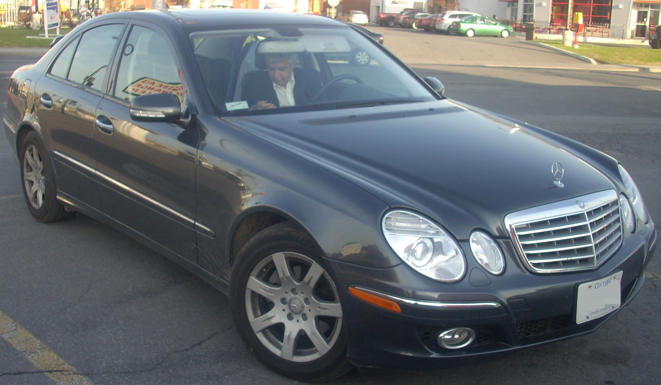 2007-2009 Mercedes-Benz E-Class photographed in Montreal, Quebec, Canada at Gibeau Orange Julep.